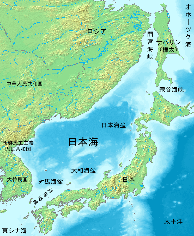 This is a map of the Sea of Japan and surrounding waters in Japanese.